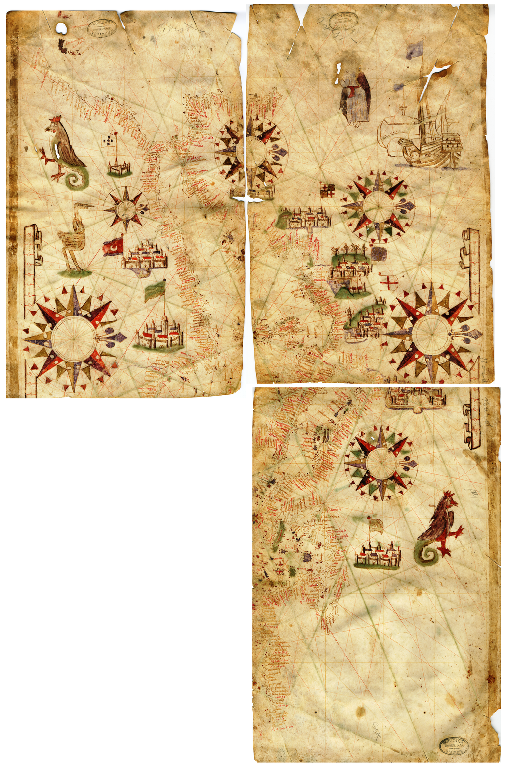 This portolan nautical chart, of Catalan origin, illustrates the coastal areas of the Mediterranean Sea with a wealth of detail, with toponyms of the inhabited areas shown without regard to political-territorial divisions. Nautical charts came into use on sailing vessels in the Mediterranean toward the end of the 13th century, coinciding with much broader seafaring activity and exploration. These charts supplemented the written instructions, or portolanos, which had been used for several centuries and thus were called portolan charts. The main centers of production for these charts were Spain and northern Italy. The Carta nautica del bacino del Mediterraneo (Nautical chart of the Mediterranean basin), the only one of its type from the archives and libraries of Sardinia, is a testimony to the cultural and business relations that existed between Sardinia and Catalonia in the 16th century. Originally traced on a single sheet of paper, the map was divided into four parts and used in the binding of two volumes. The fourth part of the document has not survived. The chart is attributed to the workshop of Mateus Prunes (1532–94), a leading member of a family of cartographers who lived and worked on the island of Majorca from the early 16th century to the late 17th century. Mediterranean Region; Nautical charts; Portolan charts